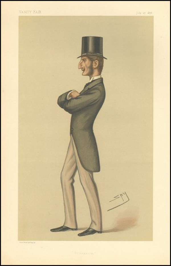 Statesmen No.276: Caricature of Lord CJ Hamilton. Caption reads: "Bridegroom"